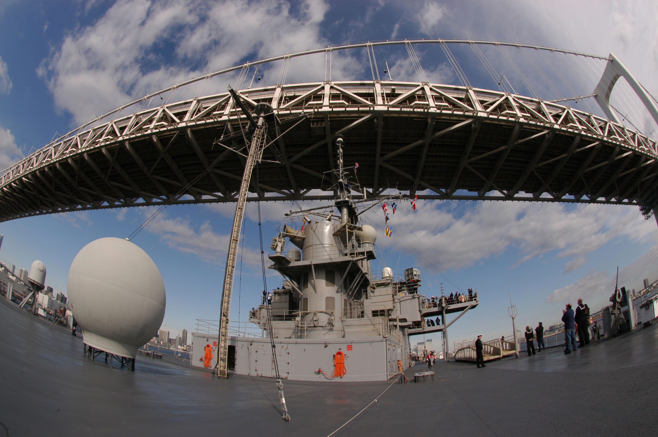 Tokyo-wan, Japan (Nov. 19, 2005) – The amphibious command ship USS Blue Ridge (LCC 19) crew members and guests watch as the ship steams under Tokyo’s Rainbow Bridge. Blue Ridge Sailors took the opportunity to invite more than 300 of their friends and family members for a day cruise to Tokyo. Blue Ridge is the 7th Fleet command ship and is permanently forward deployed to Yokosuka, Japan. U.S. Navy photo by Photographer's Mate 2nd Class Keith Bryska (RELEASED)